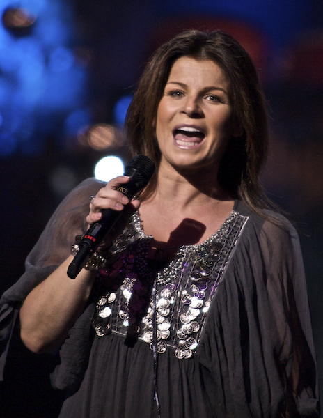 Swedish singer Carola, performing at DR's Christmas Show 2009, in Aalborg, Denmark.